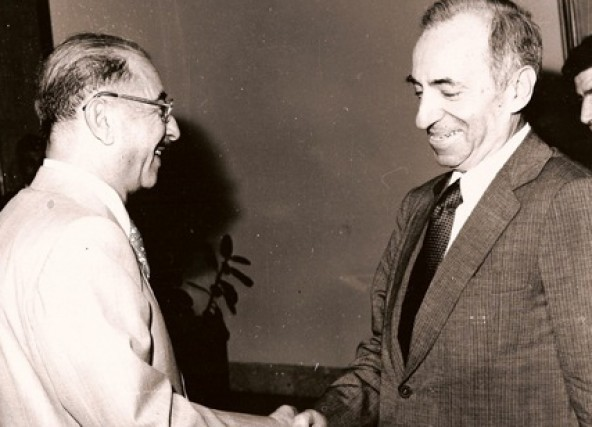 Browse By Era Browse By Theme Browse By Country Browse By People Newsletter Join our mailing list Email* Subscribe Unsubscribe Baath Party founder Michel Aflaq (right) with Iraqi President Ahmad Hasan al-Bakr (left) in Baghdad in 1968